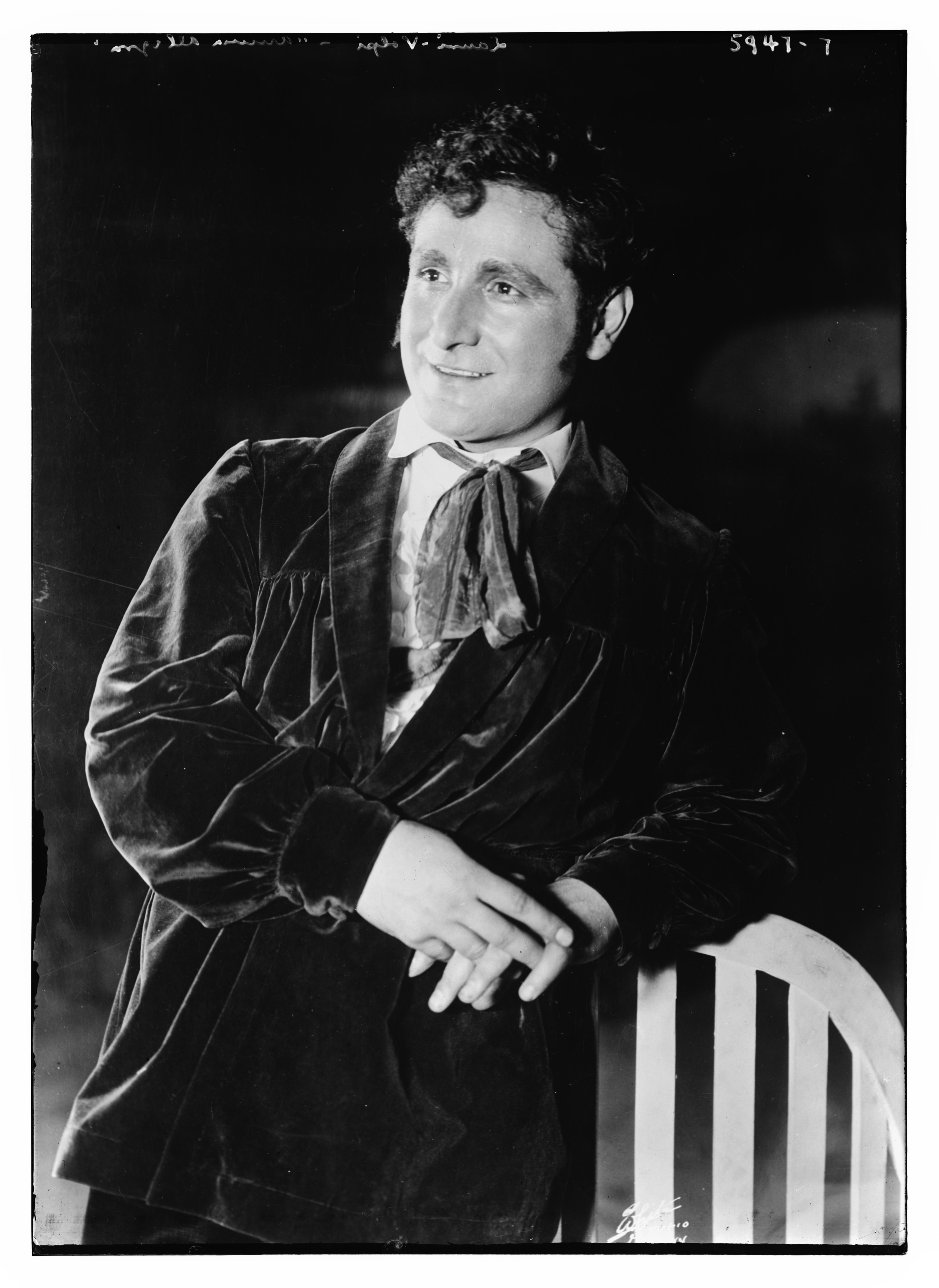 Original title: Lauri Volpi "Allegna" Description: Lauri-Volpi in the role of Pedro in Franco Vittadini’s opera Anima allegra in 1923. (Ewen, David (1978). Musicians since 1900. Performers in Concert and Opera. New York: H. W. Wilson Company. p. 442.) Abstract/medium: 1 negative : glass ; 5 x 7 in. or smaller.